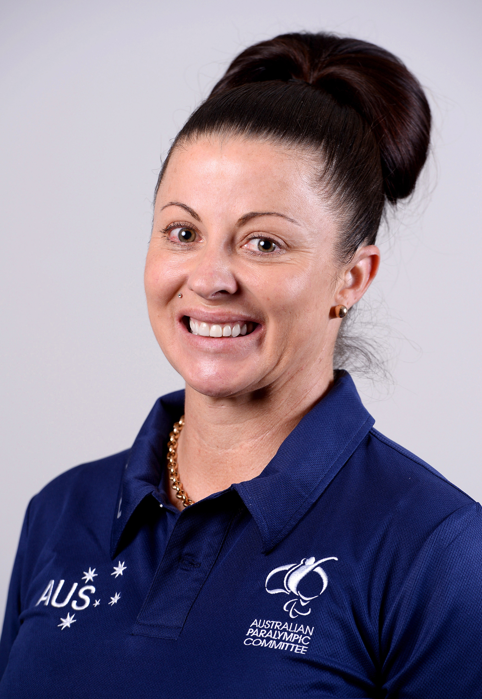 Portrait photograph of Katie Umback taken at team processing session for shadow members of 2016 Australian Paralympic team